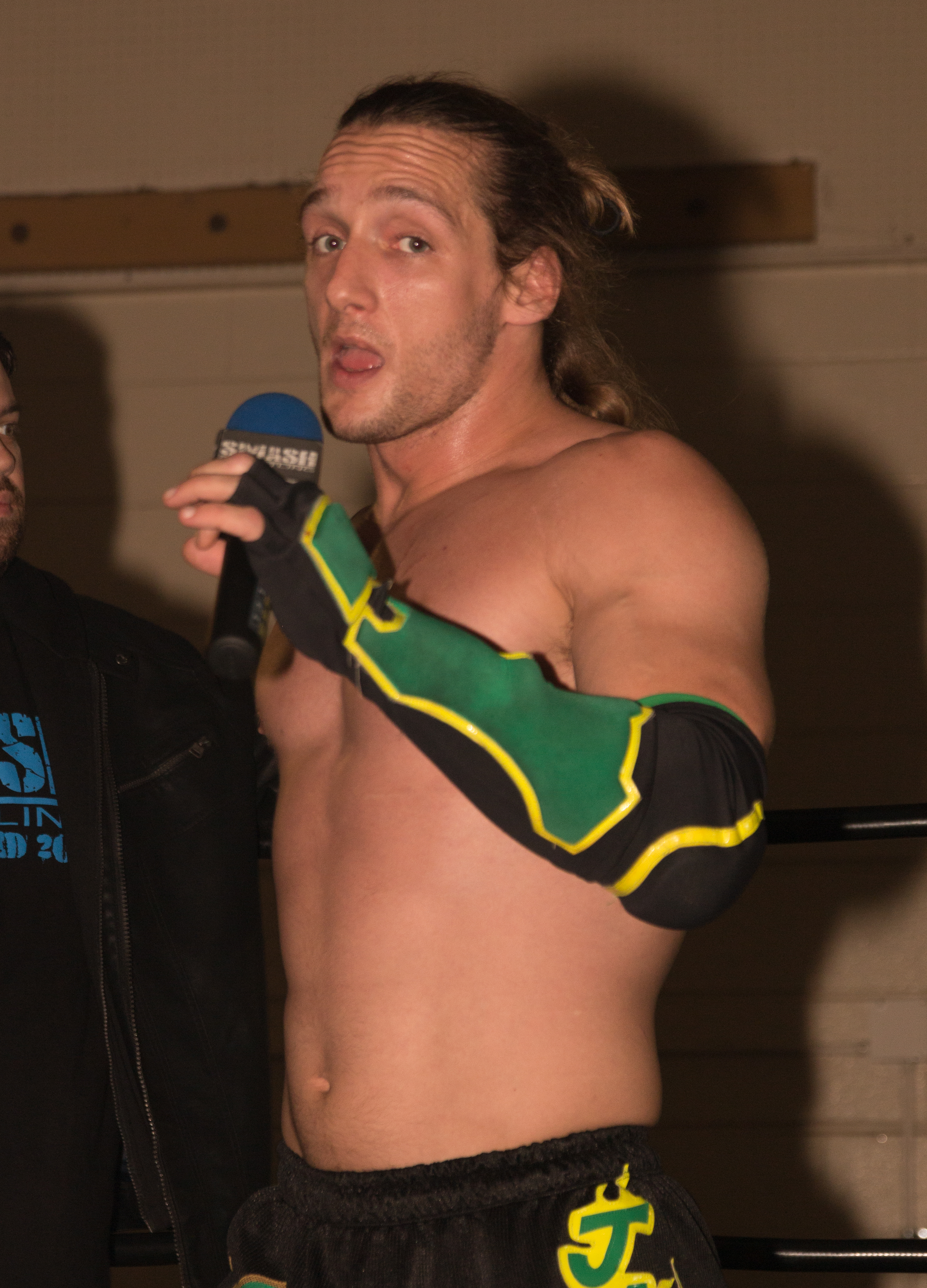 Independent wrestler Jack Evans on the microphone at a Smash Wrestling show in Etobicoke, ON